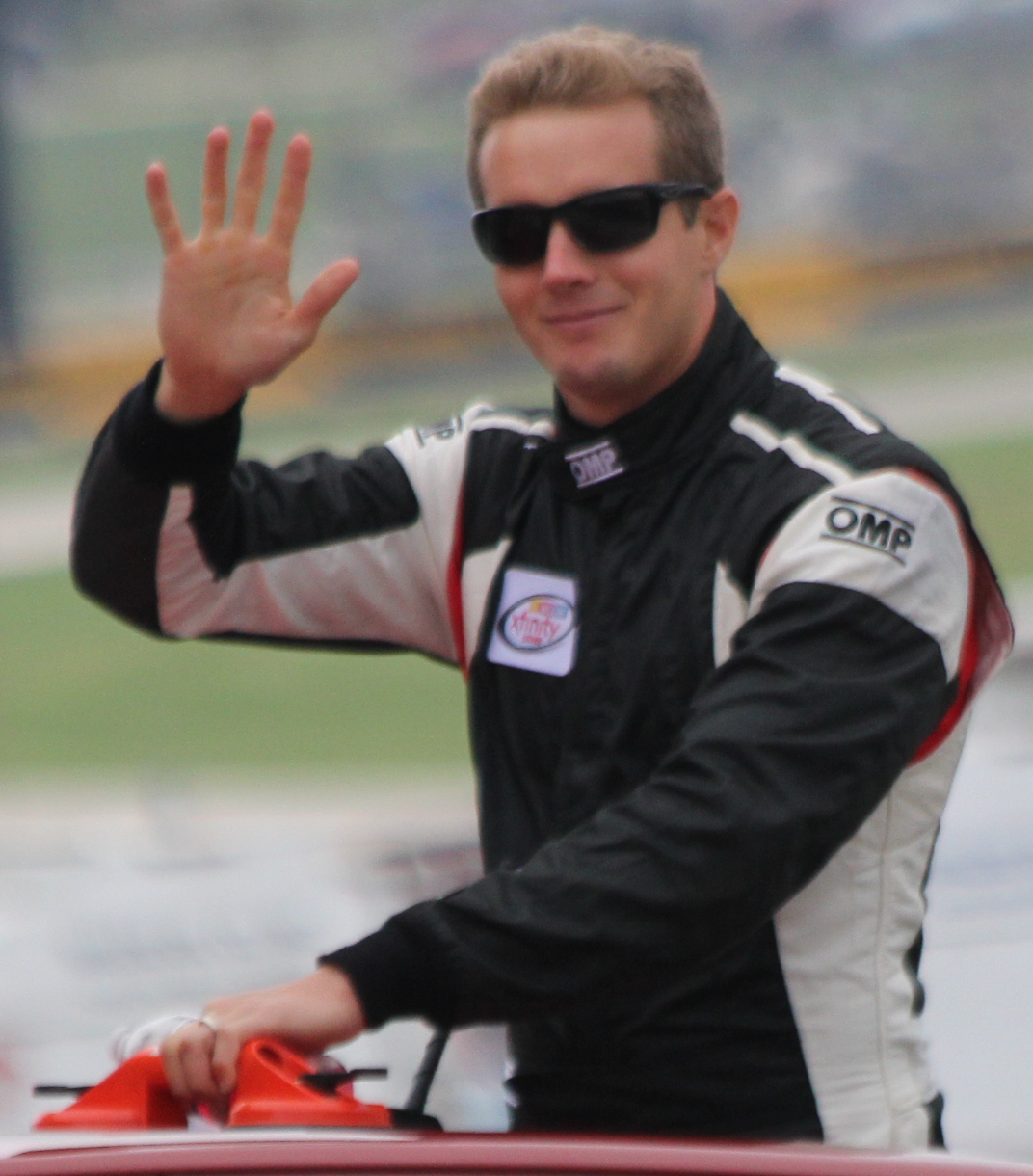 NASCAR driver Lawson Achenbach waves to the crowd during drivers introduction at the Xfinity Series race at Road America.